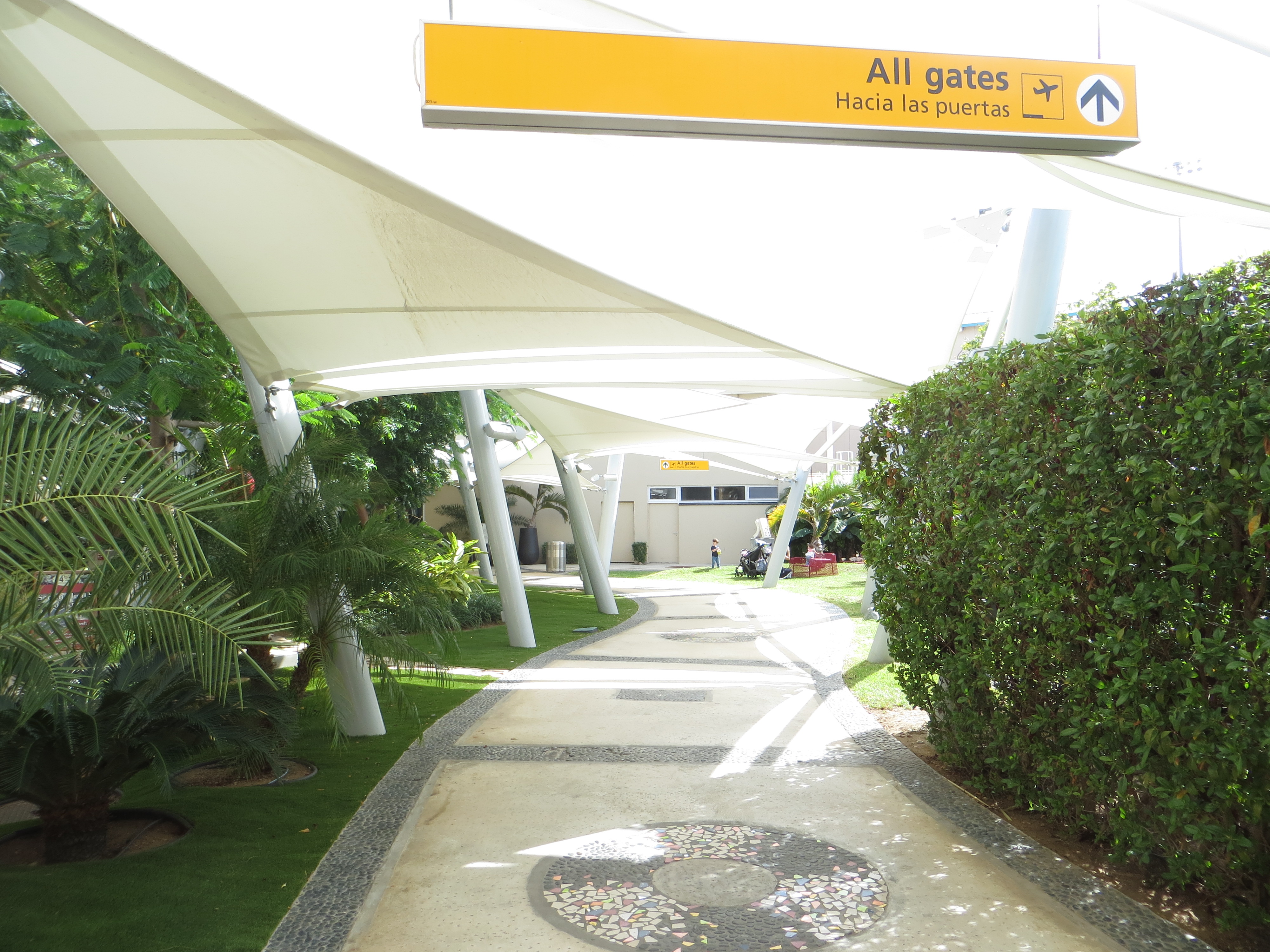 Walkway to security and US preclearance facilities at AUA